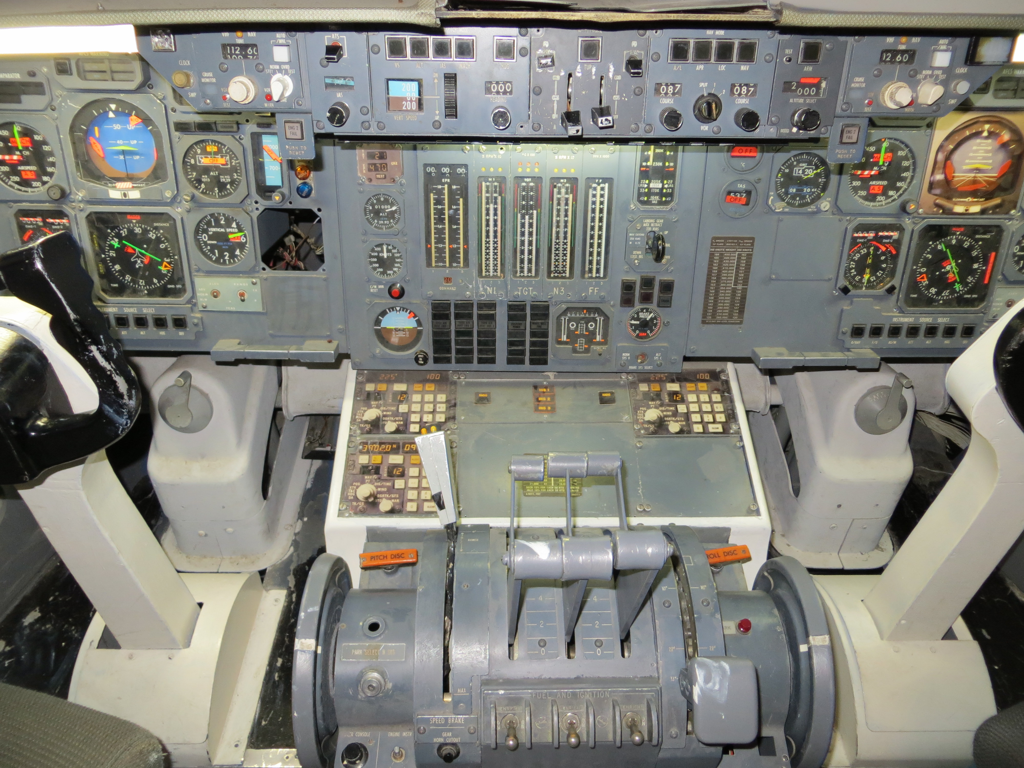 Lockheed L-1011 TriStar Cockpit Procedure Trainer at National Airline History Museum